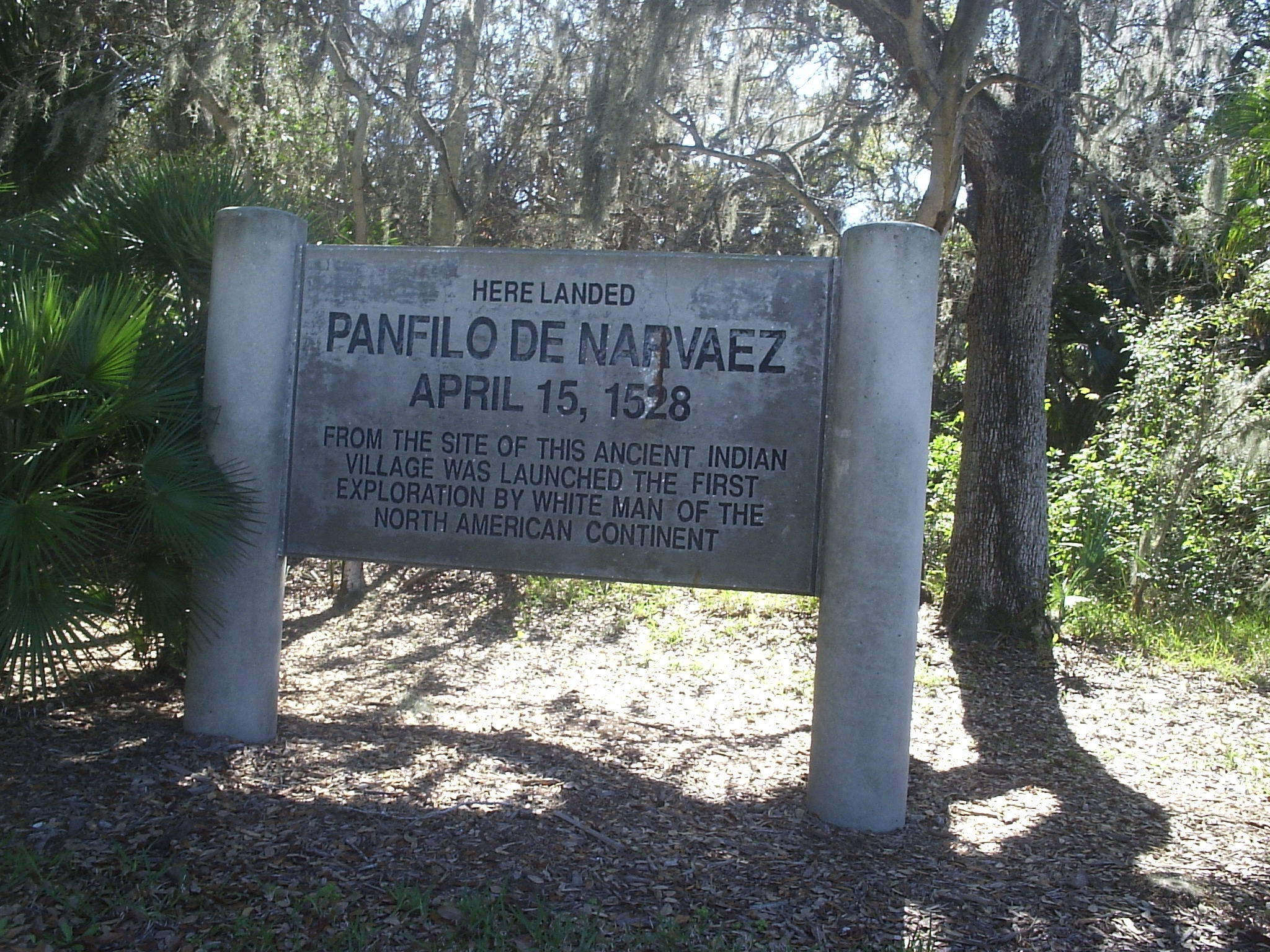 Jungle Prada/de Navaraez Park. St. Petersburg, Florida Concrete sigh declaring site the location of de Navaraez landing